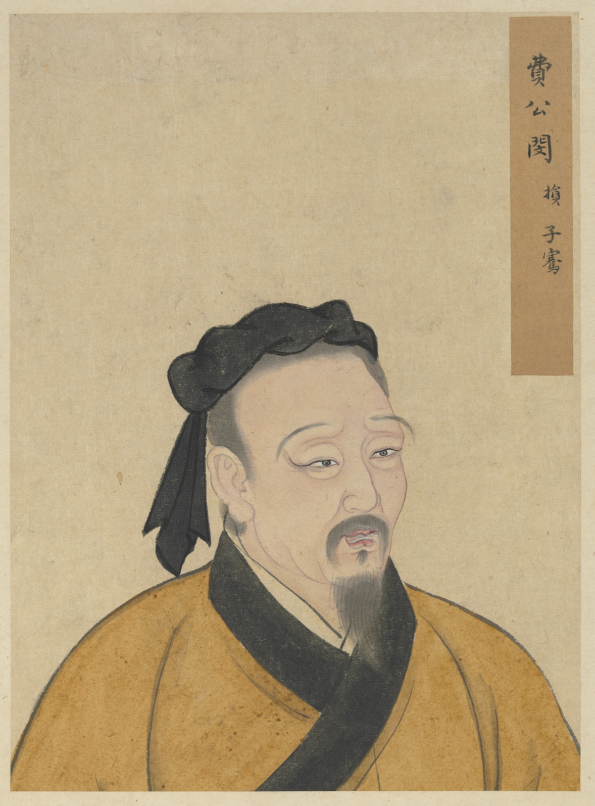 This depicts Min Sun (閔損), styled Ziqian (子騫).